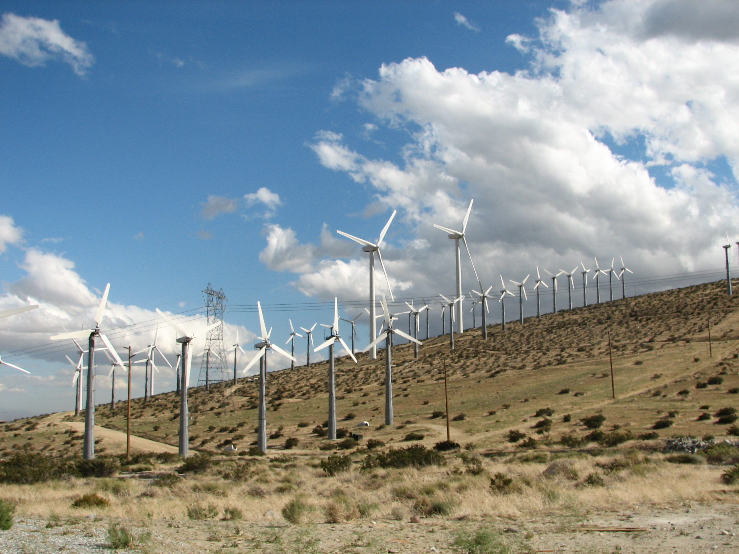 Windfarm near Palm Springs, CA Photo by Kit Conn